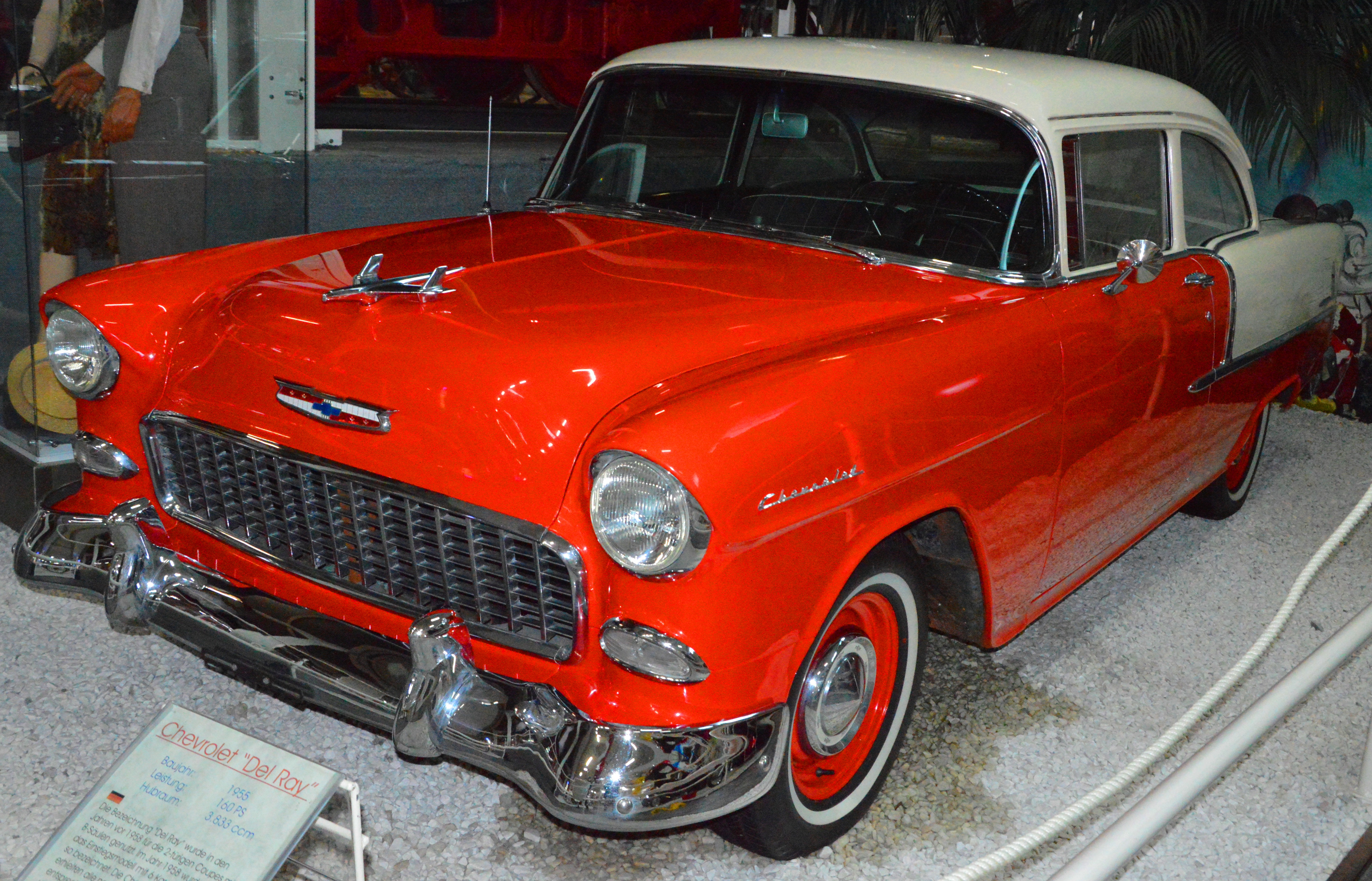 Chevrolet Del Ray. Built 1955. Photo taken 2013 at Car & Technology Museum Sinsheim, Germany.